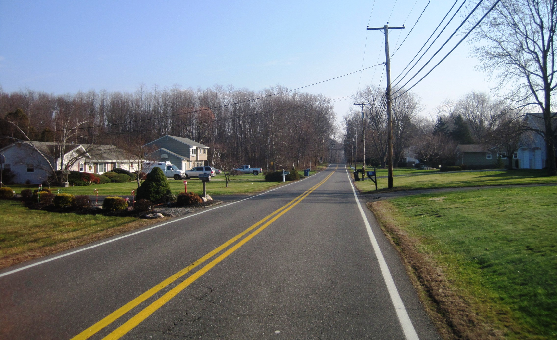 Photo of Middlesex Downs, New Jersey, an unincorporated community within Monroe Township, Middlesex County. Photo taken along eastbound Dey Grove Road approaching Garfield Avenue.